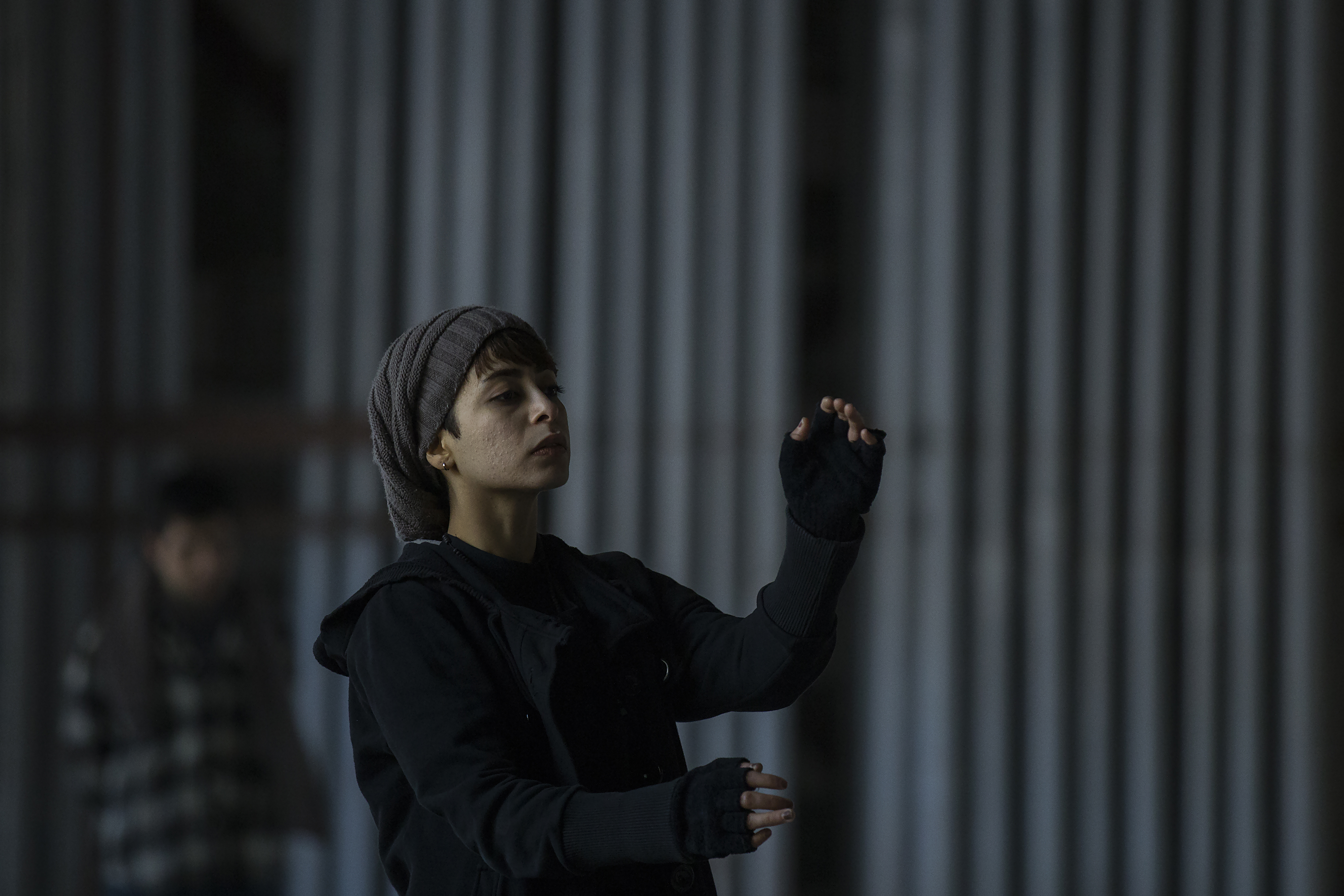 bak performance, plus 4 is a work demonstration in commision with Internation Fajr Festival by Garage Theater Company. In this demonstration/performance/lecture we see the way that Garage theater makes performance and finally they perform a piece of their last performance. Garage Theater Company has nominated as the best theater company in Iran. actress: Mahsa Lotfi photographer: Mostafa Meraji